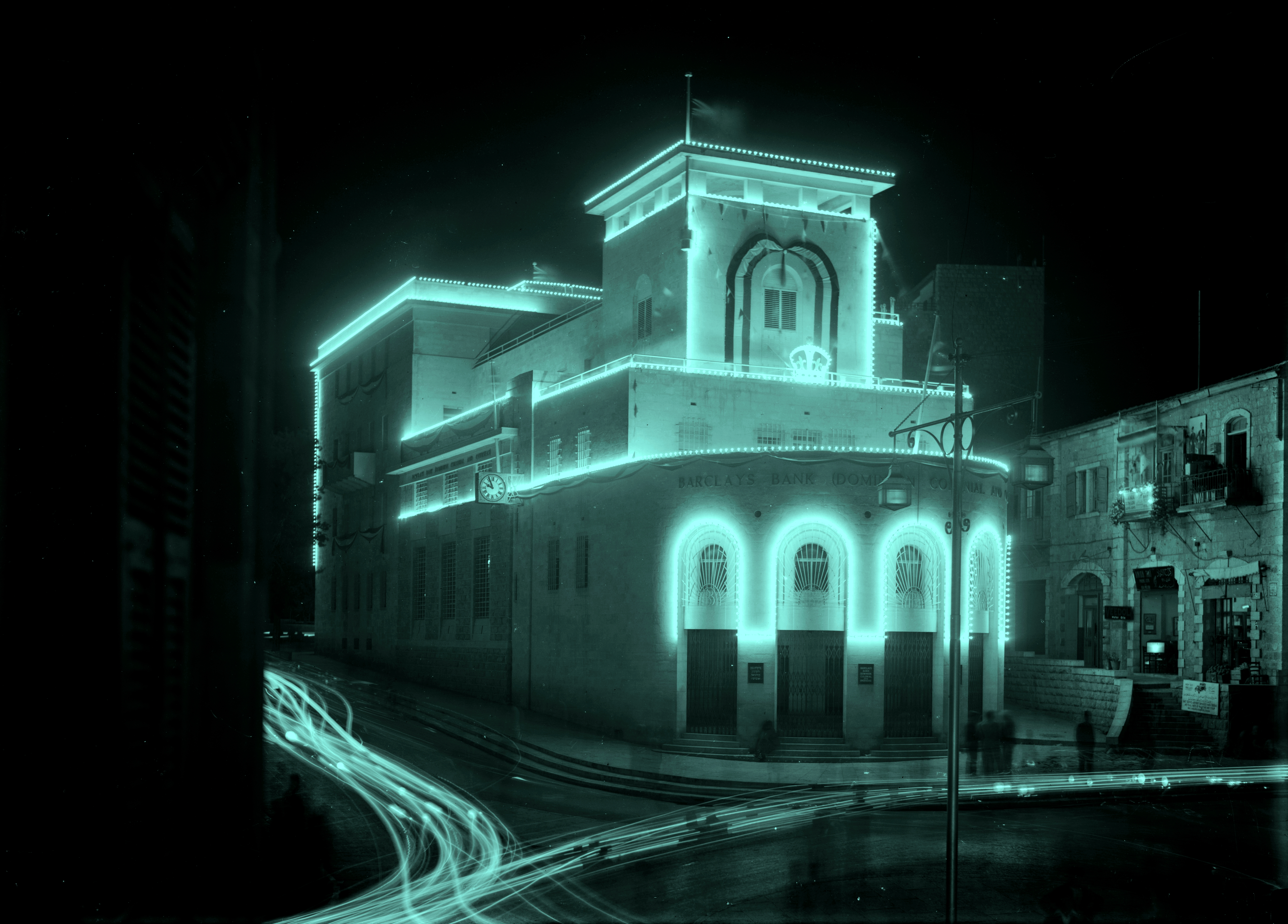 Coronation King George VI. Illuminations. May 12, 1937. Barclay's Bank. Tzahal square in Jerusalem